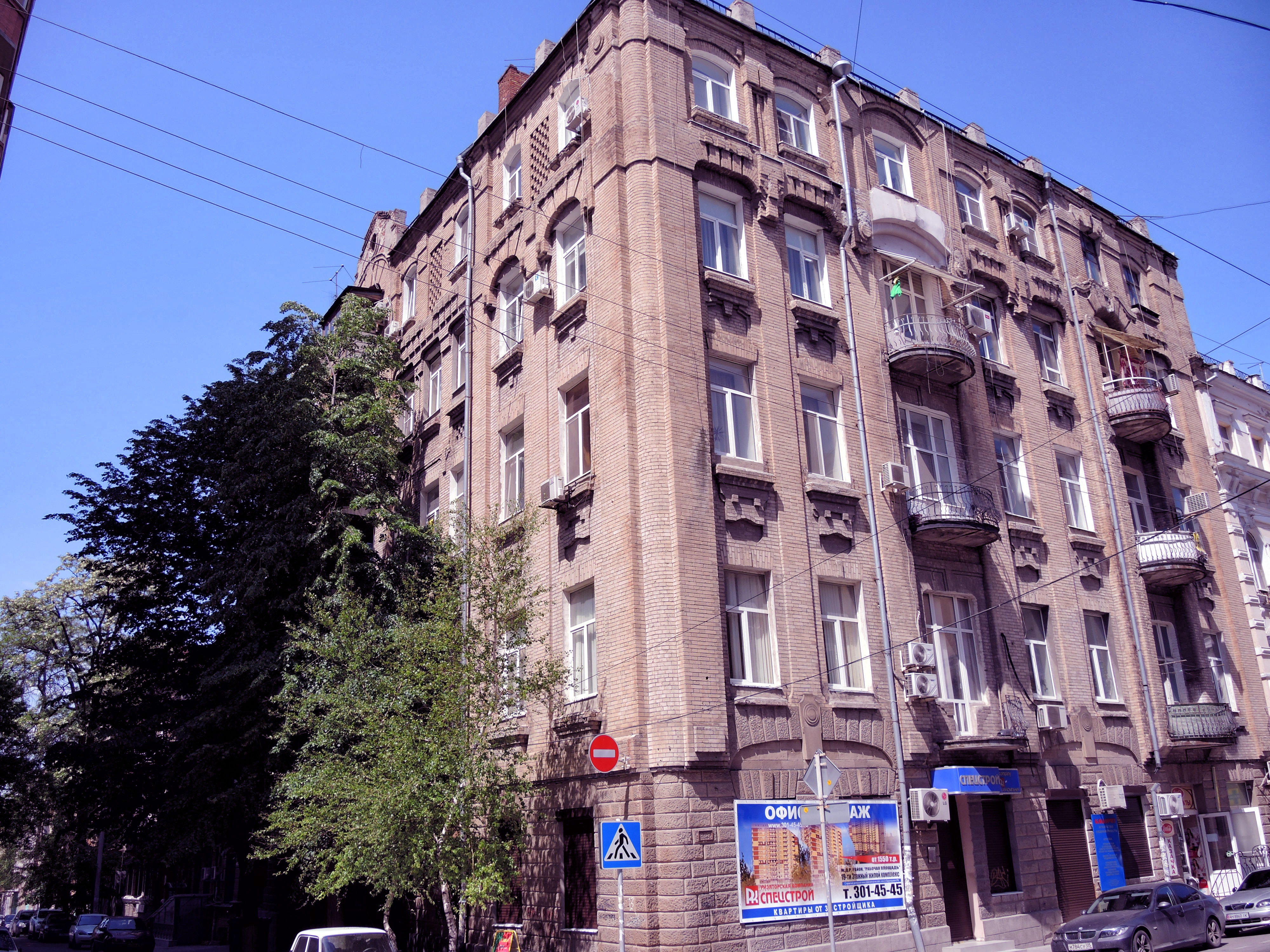 Lavanidov A. A. revenue house. 43 Halturinsky lane / 13 Shaumyana street